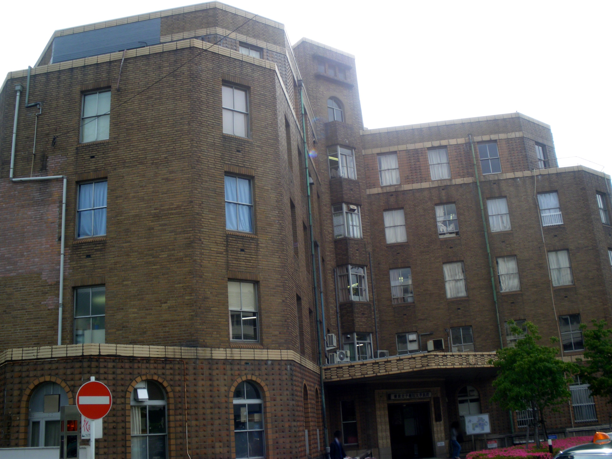 =A photo of Tokyo Women's Medical University Hospital first ward Kawadacho,Shinjuku-ku,Tokyo,Japan.